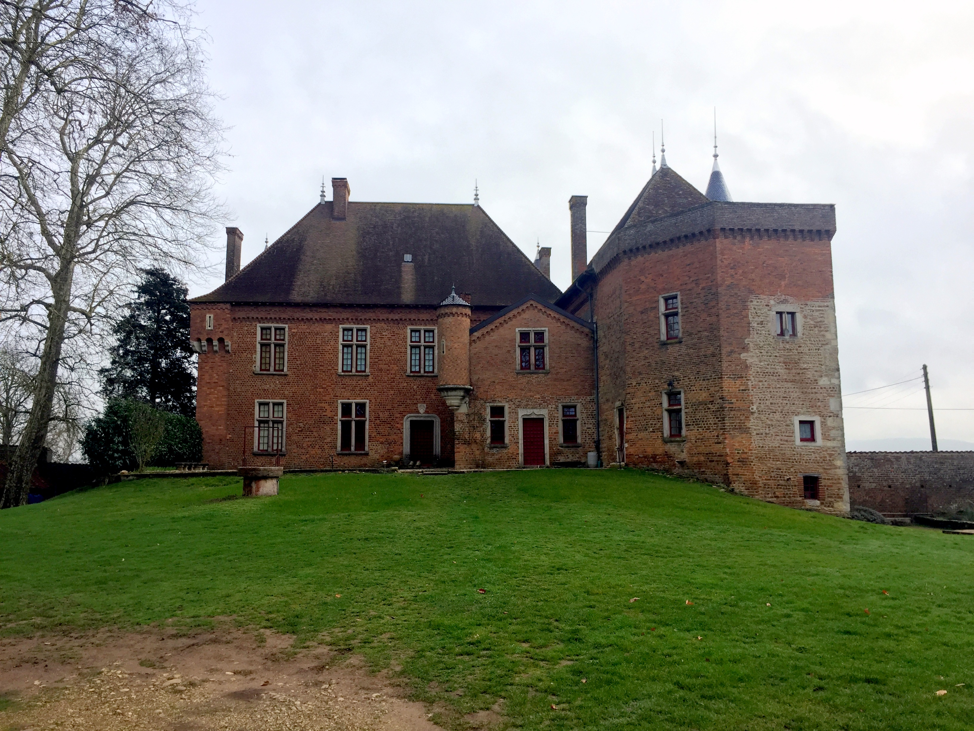 This photograph was taken with an iPhone 6